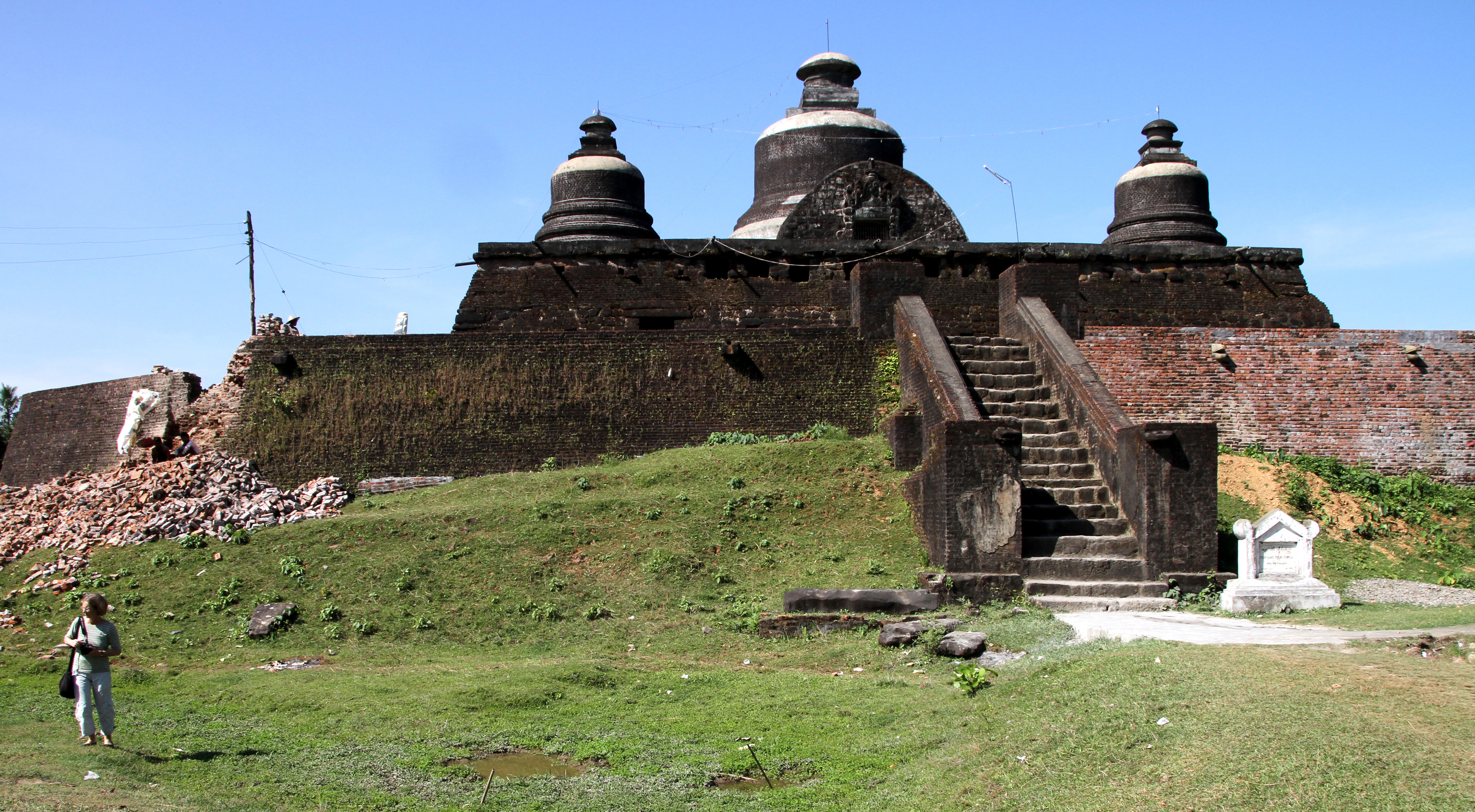 Htuk Kant Thein Pagoda in Mrauk U, old capital in the Rakhine State in Myanmar.